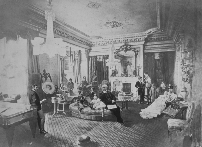 Andrew Allan (1822-1901) of Montreal and his family, 1871. Photographed by Notmans of Montreal, held at the McCord Museum, Montreal